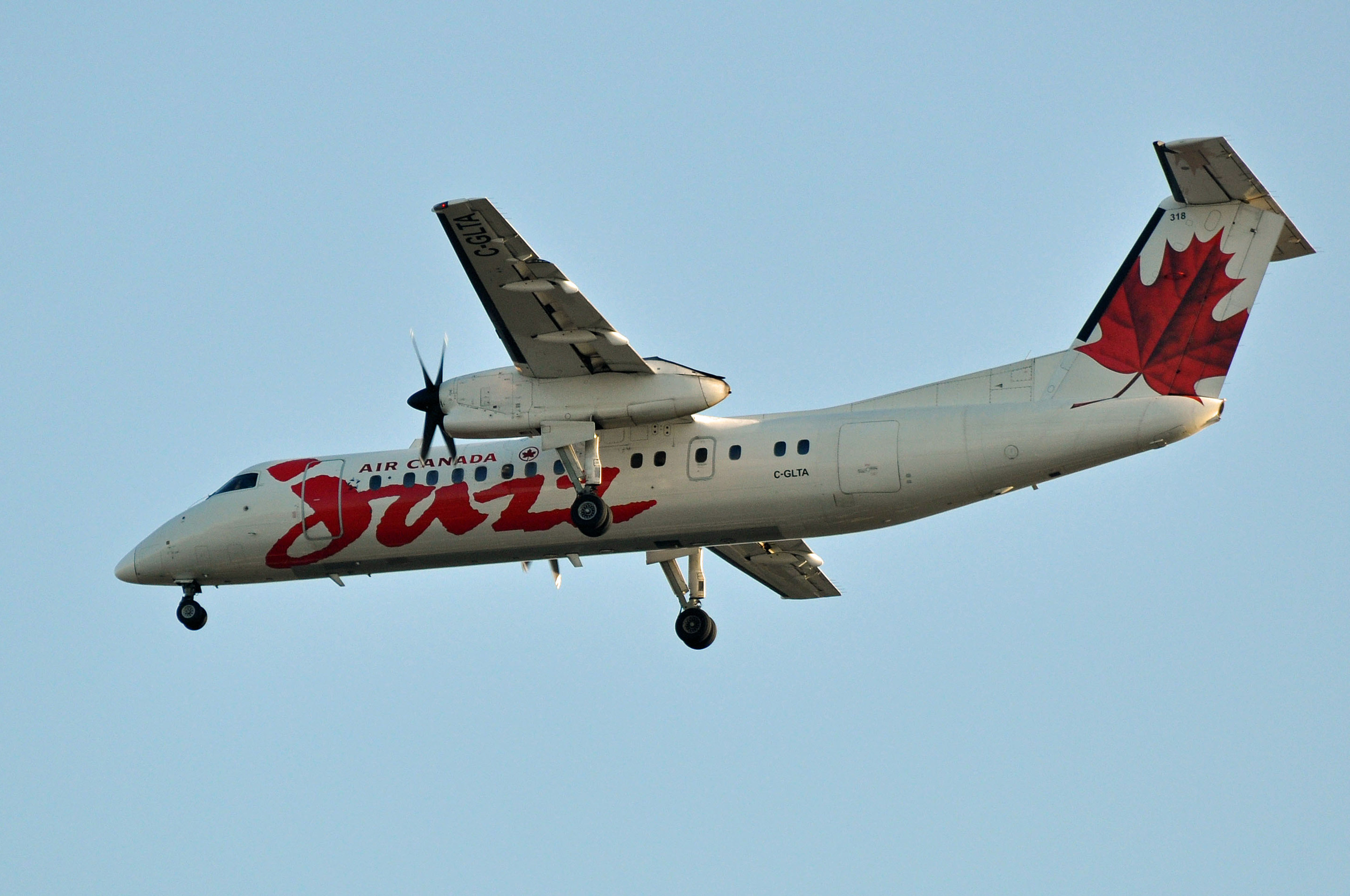 MSN 154 DASH 8 / DHC-8 301 JAZZ AIR / AIR CANADA YVR AIRPORT EX TIME AIR / CANADIAN REGIONAL AIRLINES / AIR CANADA REGIONAL